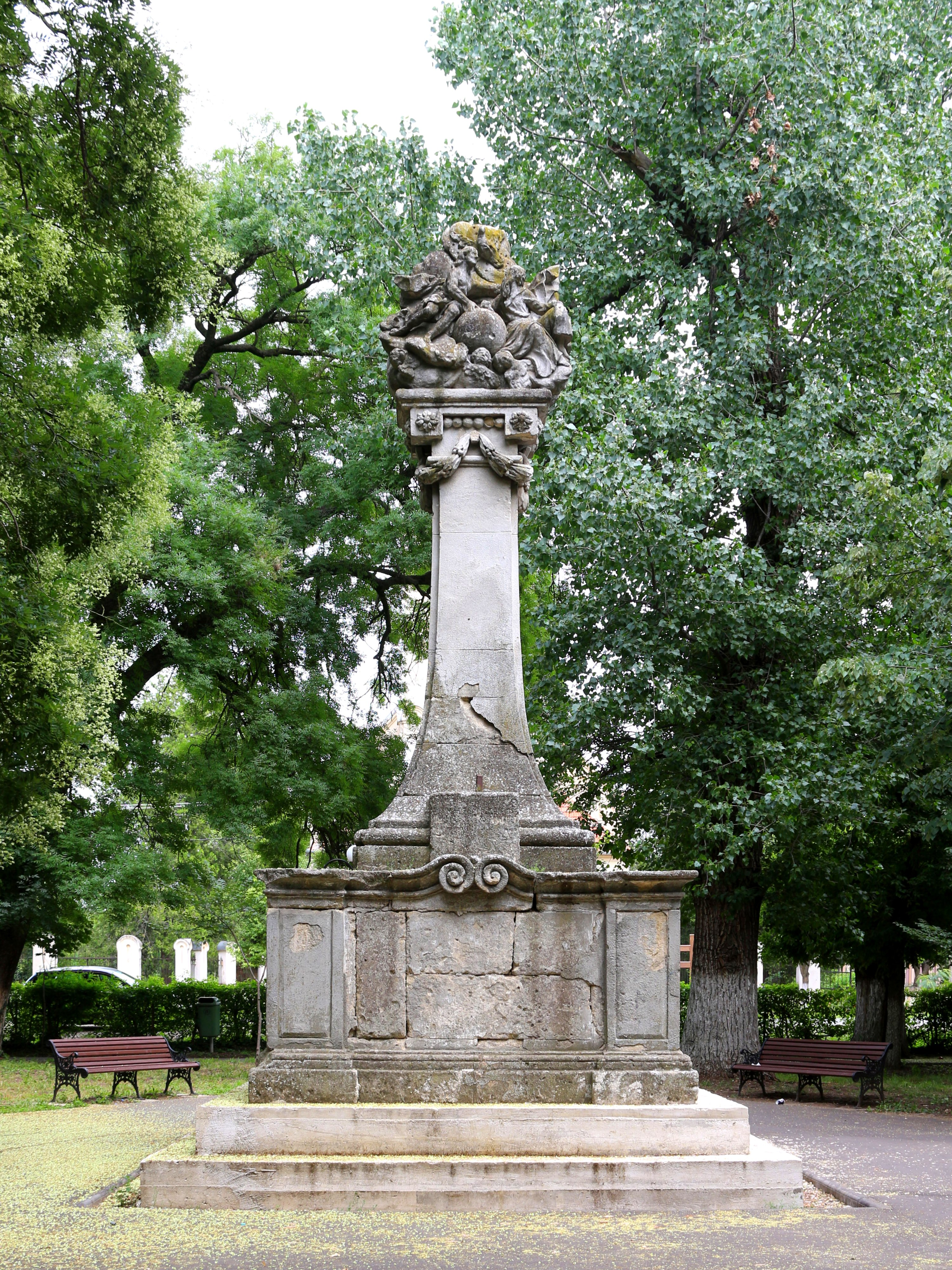 The Holy Trinity, Teremia Mare, Județul Timiș, Romania.